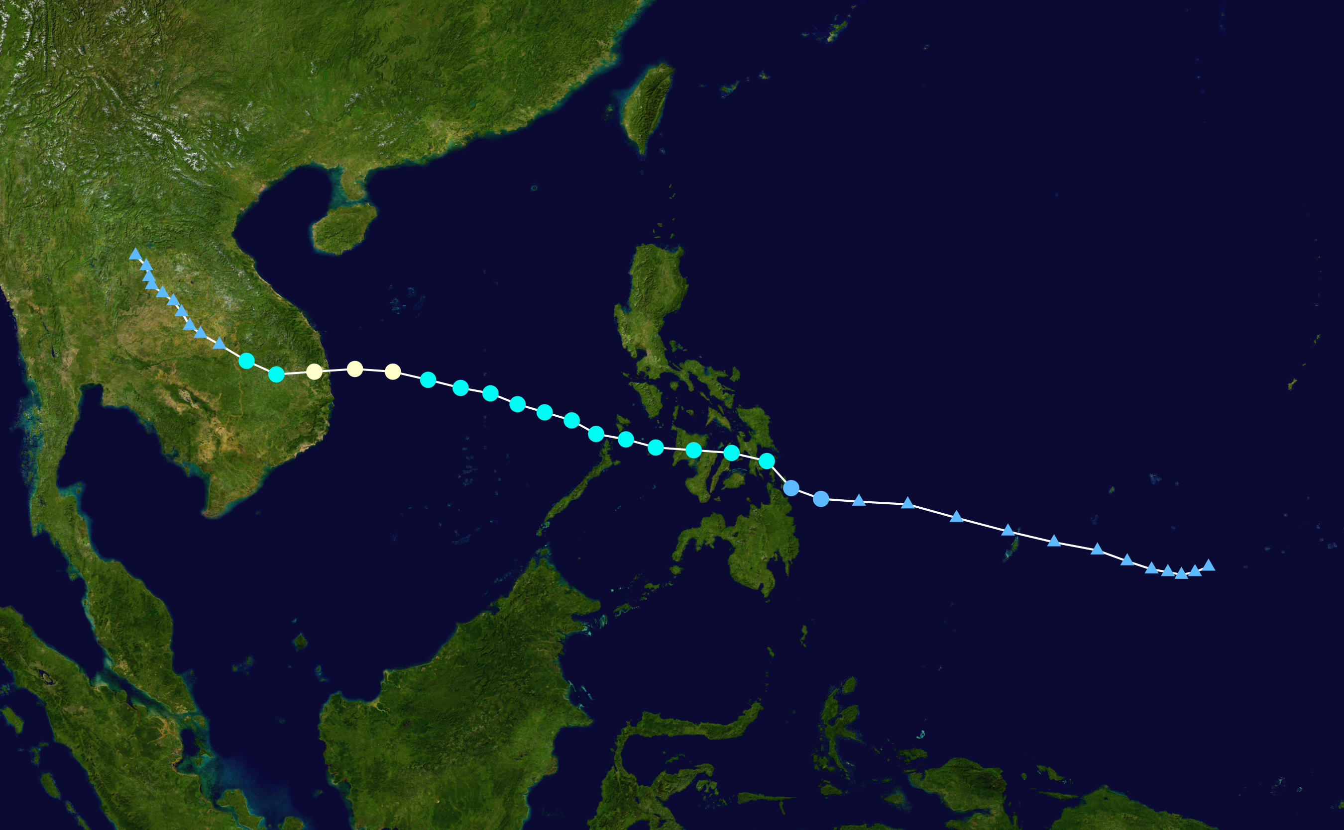 Typhoon Chanthu (2004) track. Uses the color scheme from the Saffir-Simpson Hurricane Scale.